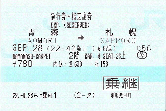 Hamanasu reserved ticket, Carpet car.